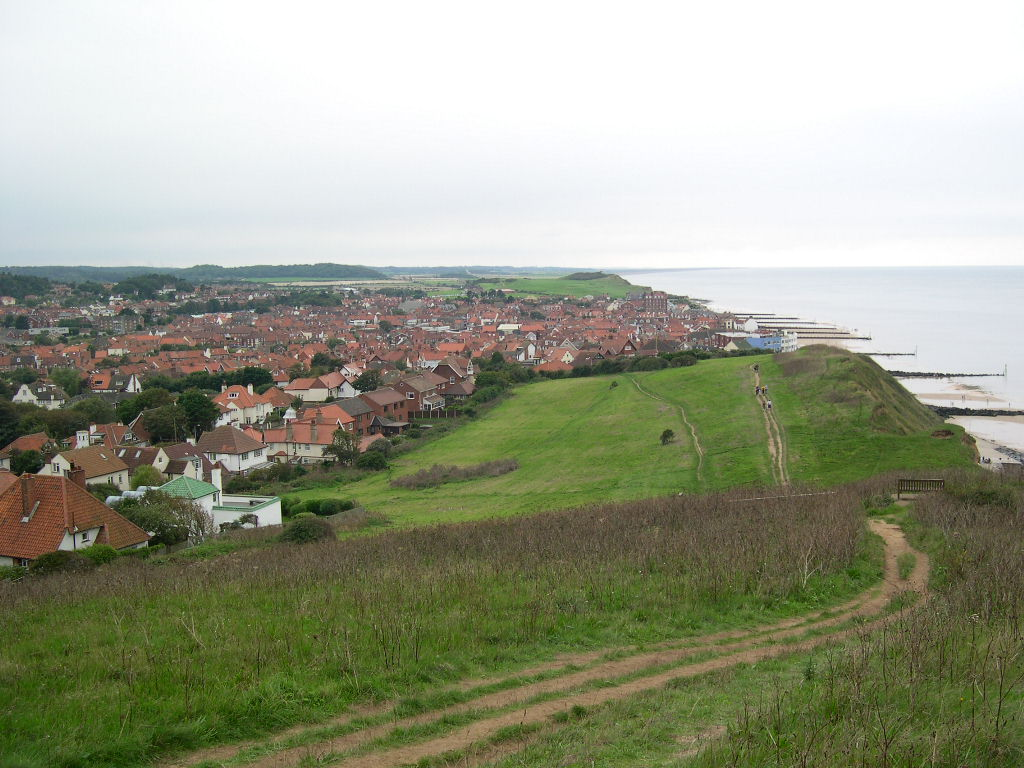 Sheringham, Norfok, England